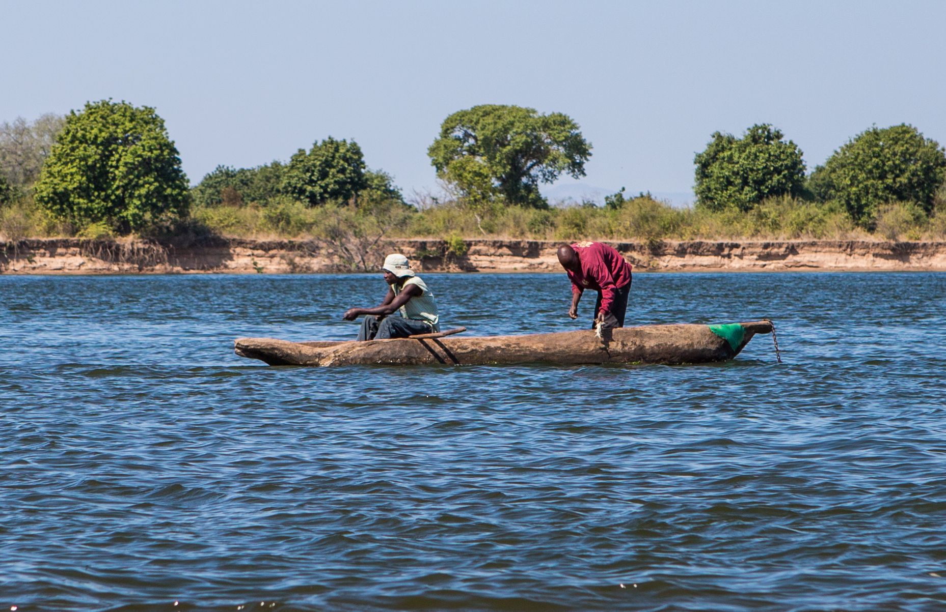 Dugouts are still being used to fish on the Zambezi River, Zambia